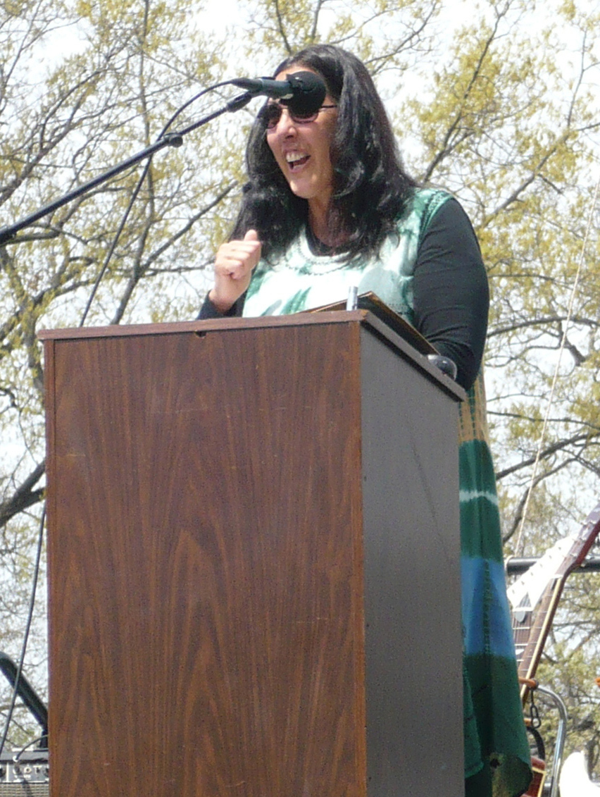 Mary Ann Vecchio speaking at the 39th annual May 4 Commemoration at Kent State University in Kent, Ohio, United States. The event, which was organized by the May 4 Task Force, was held on the university's Commons.